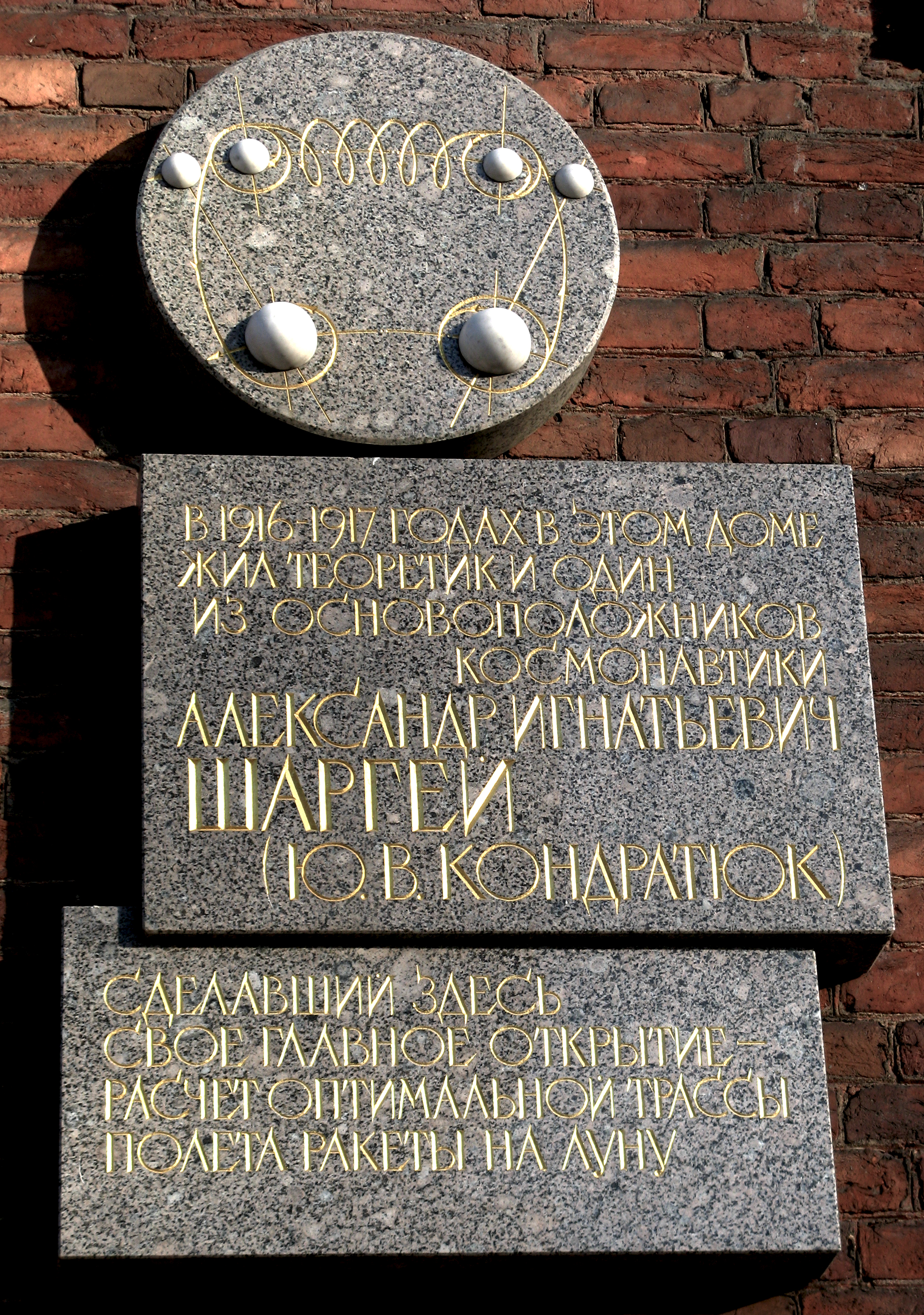 Marble plaques. 14-line, building 33, Vasilievsky Island, Saint-Petersburg, Russia. The title on the memorial plaque: "Yuri Kondratyuk lived in this house in 1916-1917. He is one of the founders of astronautics and here he had made his main discovery - the calculations of an optimal trajectory that may take a spacecraft to the Moon".